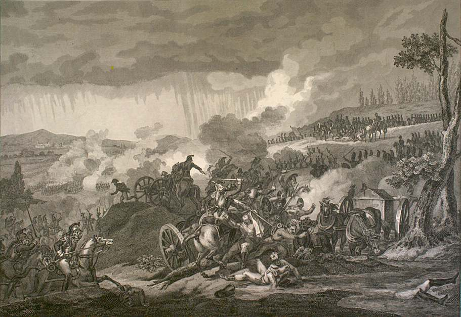 French cavalry attack in the Battle of Dresden (27 August 1813). Pennington Catalogue p. 3011, engraving.